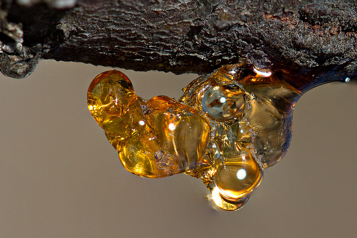 Strangways Vic. Acacia pycnantha